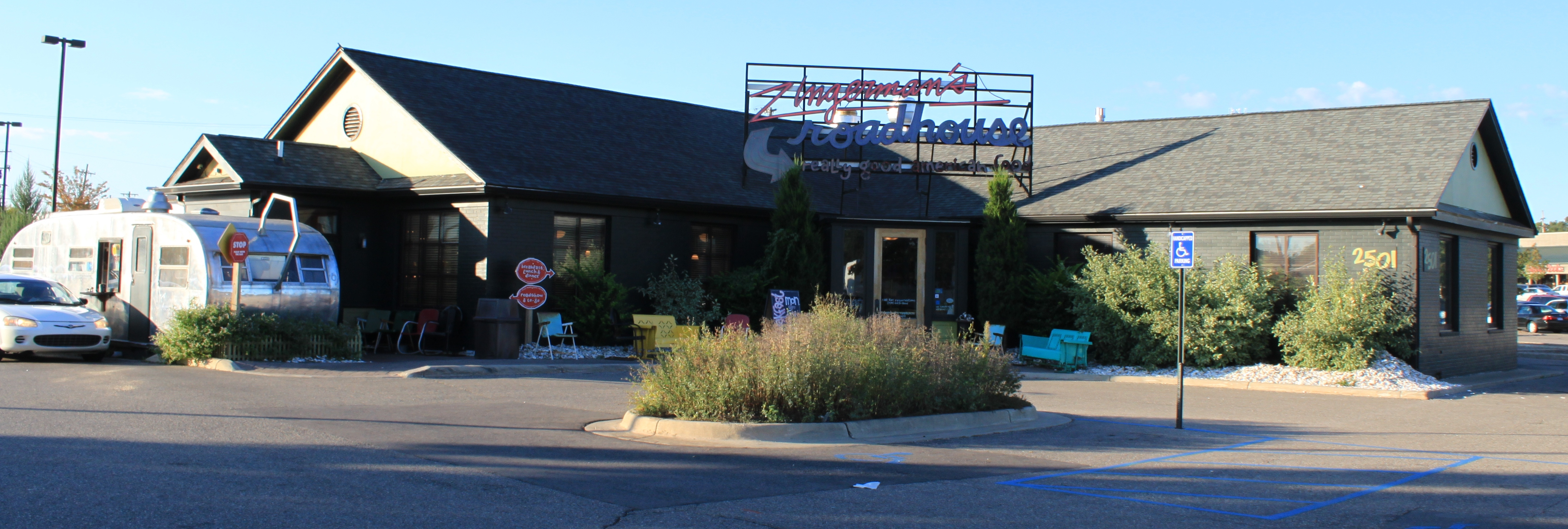 Zingerman's Roadhouse, Westgage Shopping Center, 2501 Jackson Avenue, Ann Arbor, Michigan